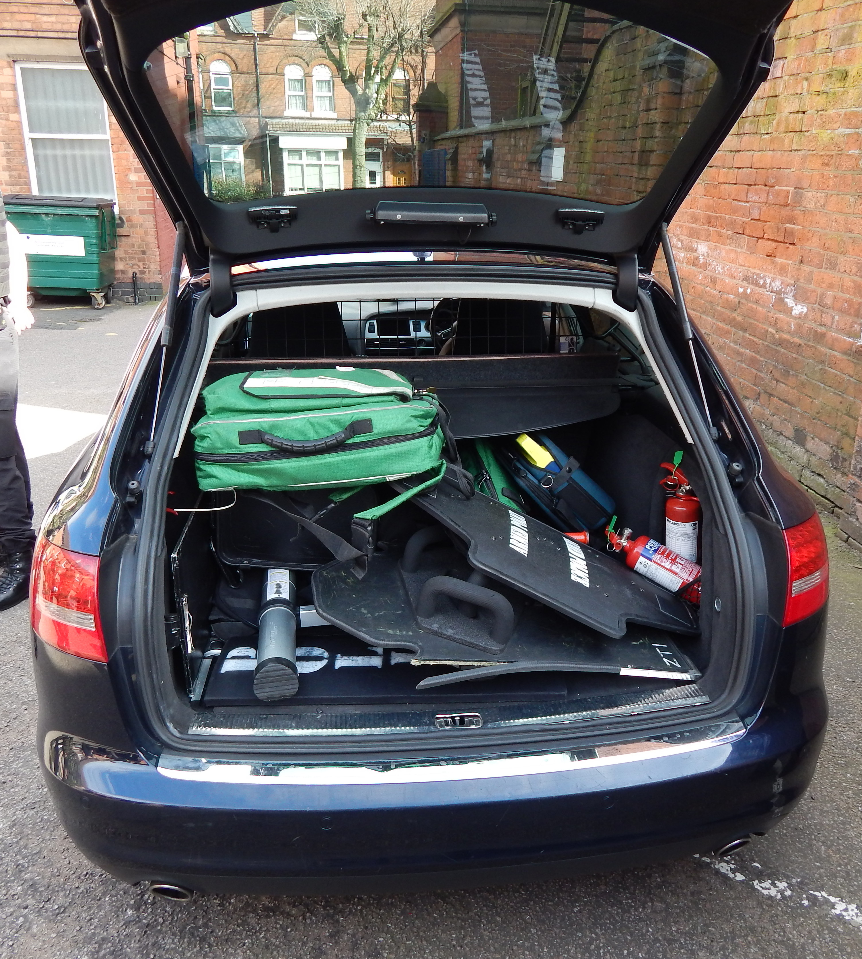 Boot of an unmarked armed response vehicle (ARV) belonging to West Midlands Police. The rear of the vehicle has been customised to accommodate an armoured box for the weapons; other visible equipment includes an advanced first-aid kit, fire extinguishers, and ballistic shields. Photographed at Sparkhill police station with the kind permission of the crew on the condition that the officers' faces and the vehicle's number plate were omitted.